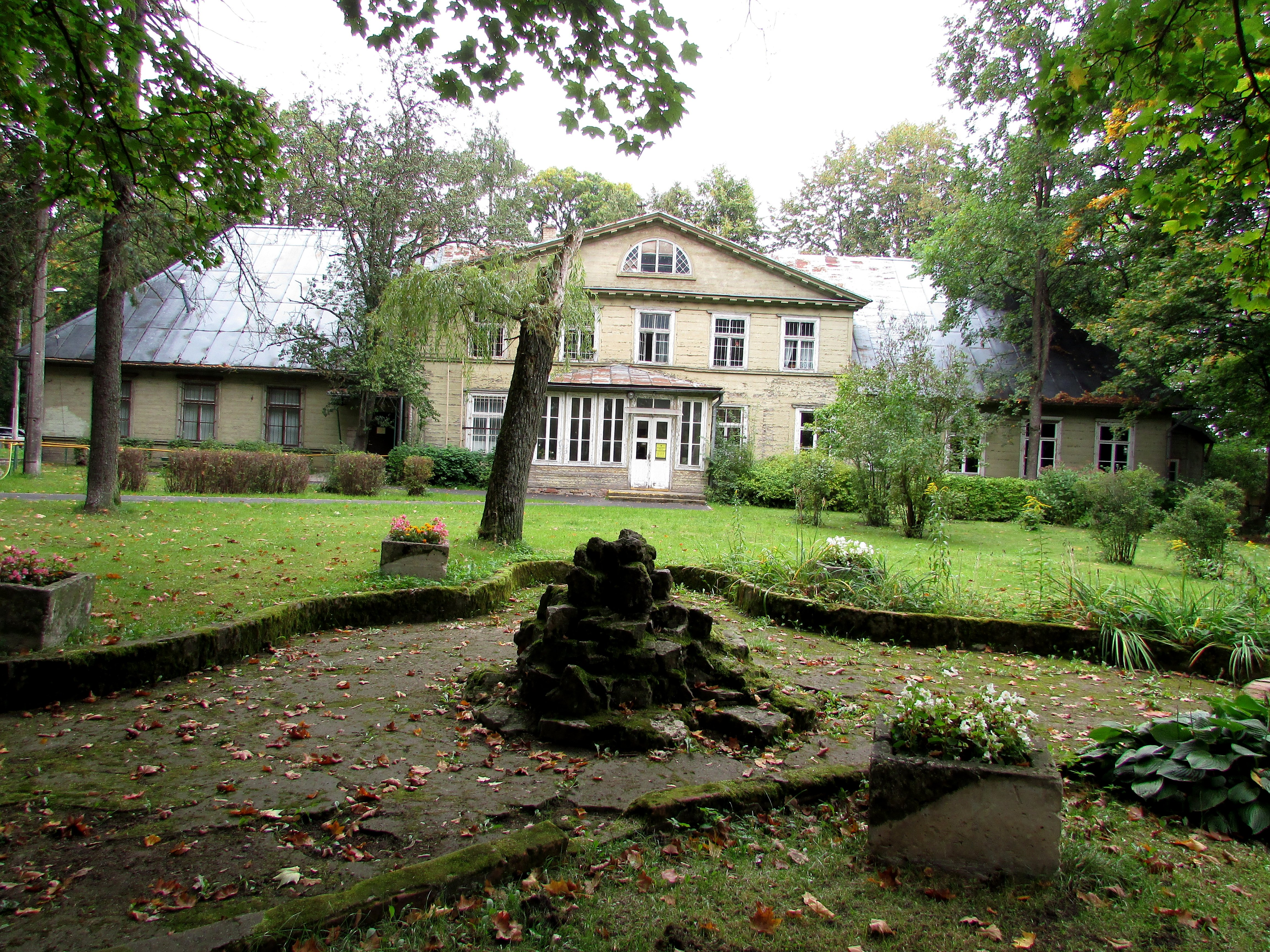 Strazdumuiza manor in Riga